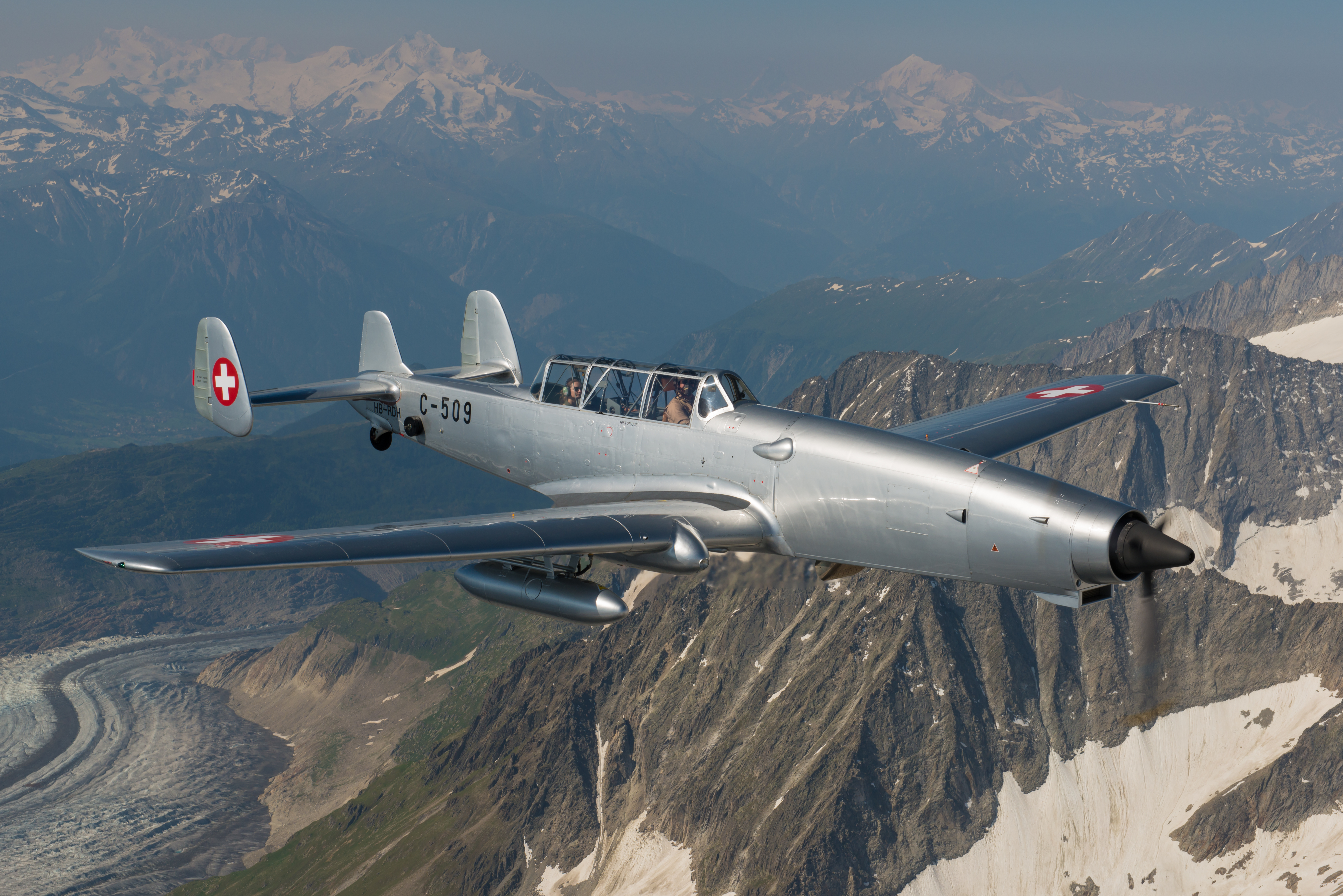 HB-RDH over the swiss alps near Sion (LSGS)